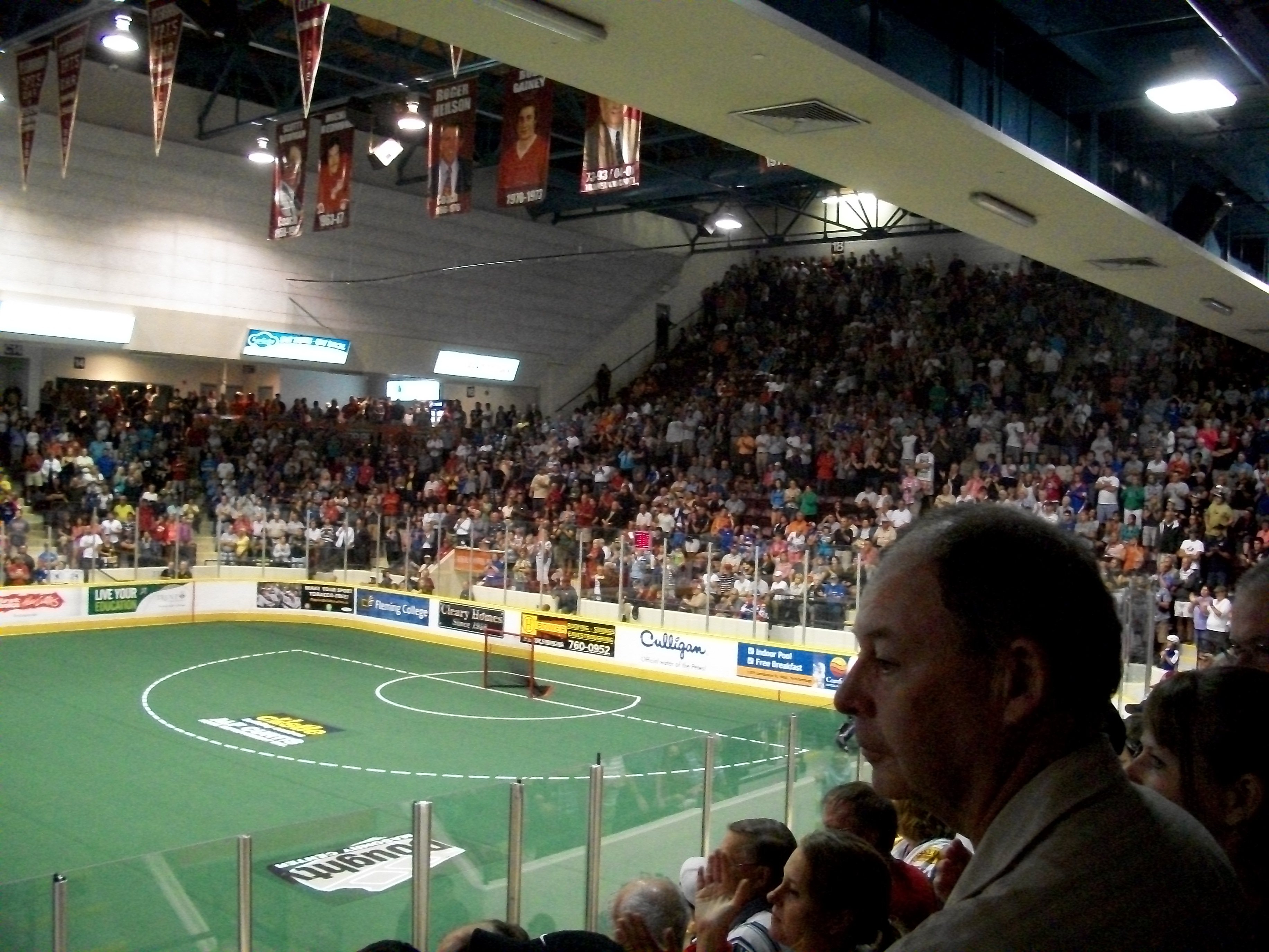 Lakers fans in the Peterborough Memorial Centre for game 7 of the 2011 Major Series Lacrosse Semi-Finals.